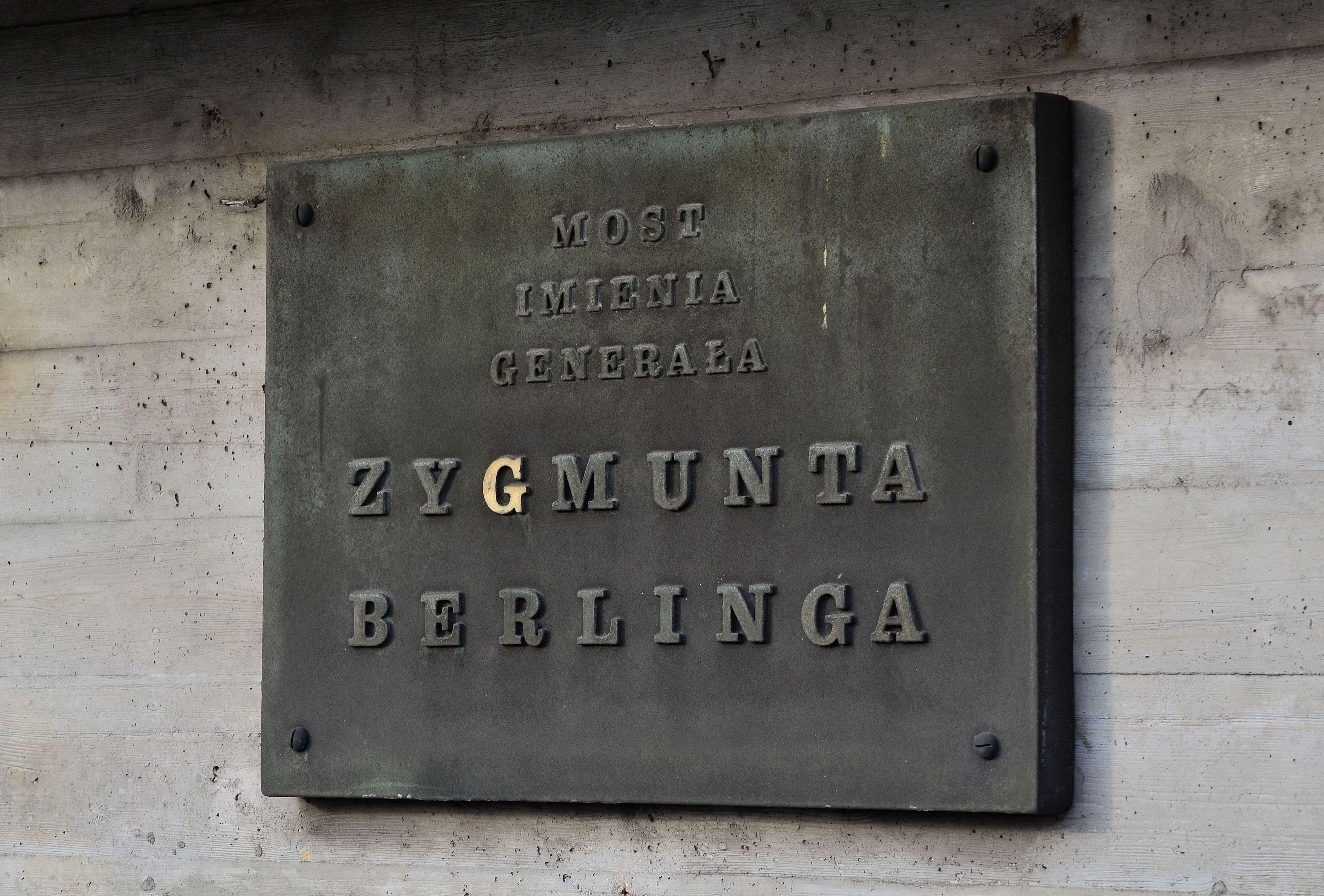 Plaque on the Łazienkowski Bridge (Środmieście side, on the southern side)